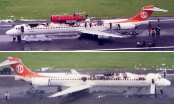 Uni Air Flight 873 landed at Hualien Airport and was rolling on Runway 21, when an explosion was heard in the front section of the passenger cabin, followed by smoke and then fire.